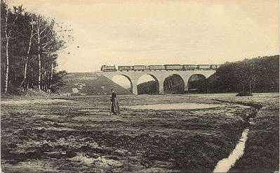 The Lindenberger Viadukt about 1910. The listed Lindenberger Viadukt (sometimes also called: Glienicker Viadukt) is an about 95 Meter long arch bridge of the Railway line Königs Wusterhausen–Grunow in the District Oder-Spree, Brandenburg, Germany. The viaduct is situated in the west of the station Lindenberg. The bridge spans the about 25 m deep Chine of Glienicke (german: Schlucht von Glienicke) in the valley of the Blabbergraben. The bridge was opened in 1898, destroyed at the end of World War II and rebuilt in 1949. It was extensively renovated between July and November 2014.